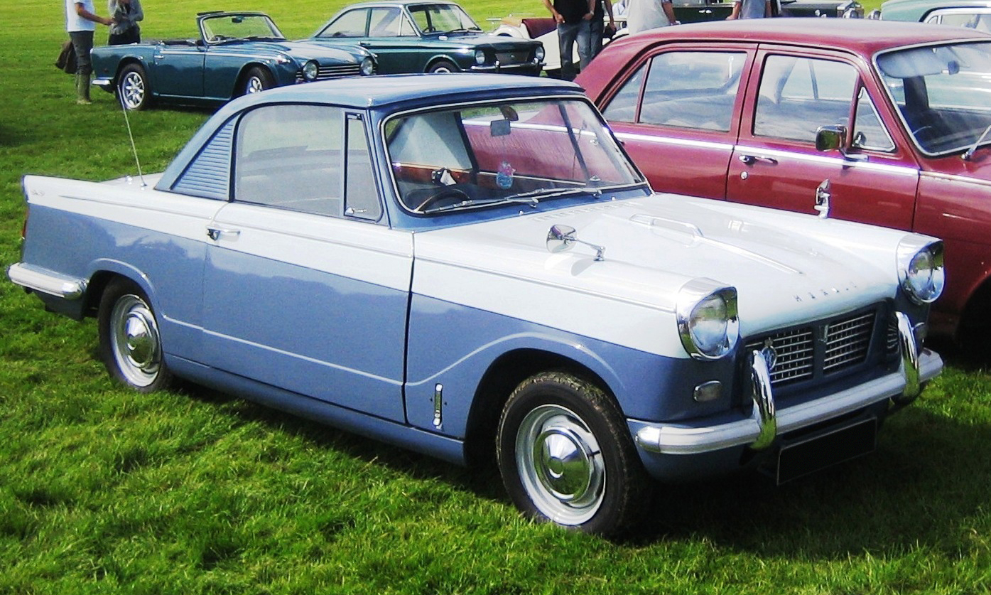 I edited the original image for use on my ad-supported automotive website (Ate Up With Motor), obscuring the numberplate. This is the edited version. Original © 2008 Charles01.